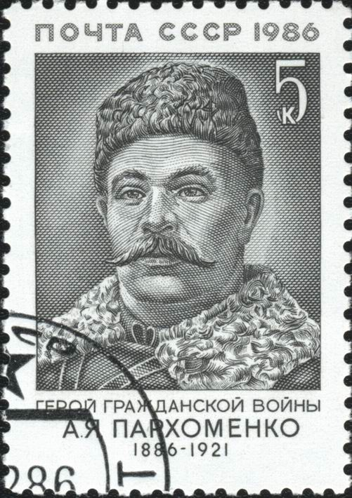 А Soviet Union stamp, Military persons of the USSR Birth Centenary of A.Ya.Parkhomenko. Date of issue: 24th December 1986. Designer: A. Adashev. Michel catalogue number: 5670. 5 K. black. Portrait of revolutionary A.Ya. Parkhomenko (1886-1921).